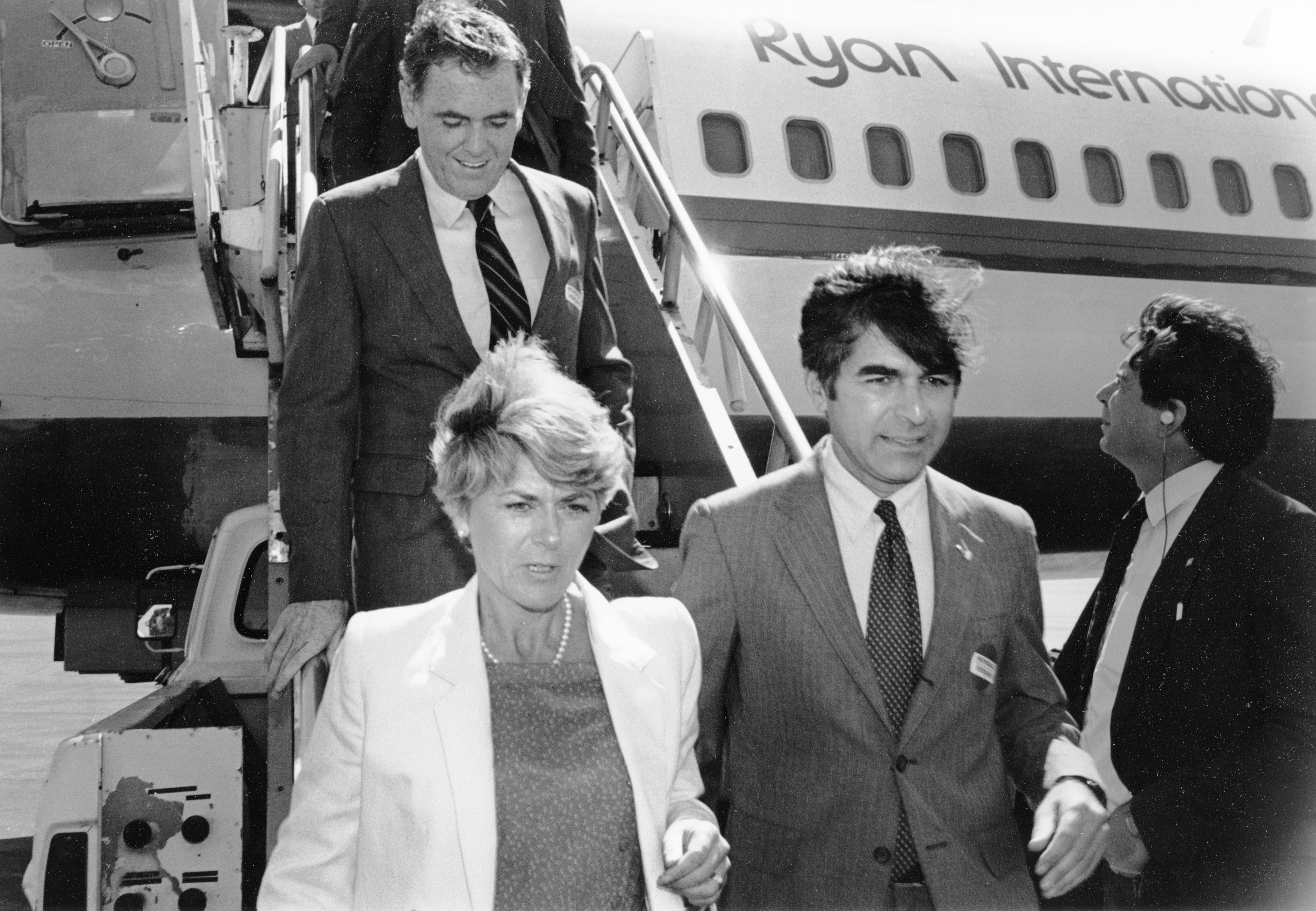 Title: Mayor Raymond L. Flynn, Vice-Presidential Candidate Geraldine Ferraro, Governor Michael Dukakis Creator: Mayor's Office - City Photographer Date: 1984 Source: Mayor Raymond L. Flynn records, Collection #0246.001 File name: RF_0211 Rights: Copyright City of Boston Citation: Mayor Raymond L. Flynn records, Collection #0246.001, City of Boston Archives, Boston